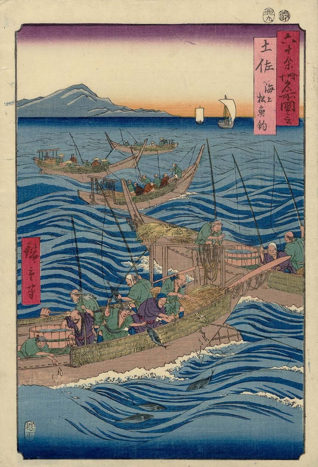 Part of the series Famous Places in the Sixty-odd Provinces, No. 58 (Nankaidō group)